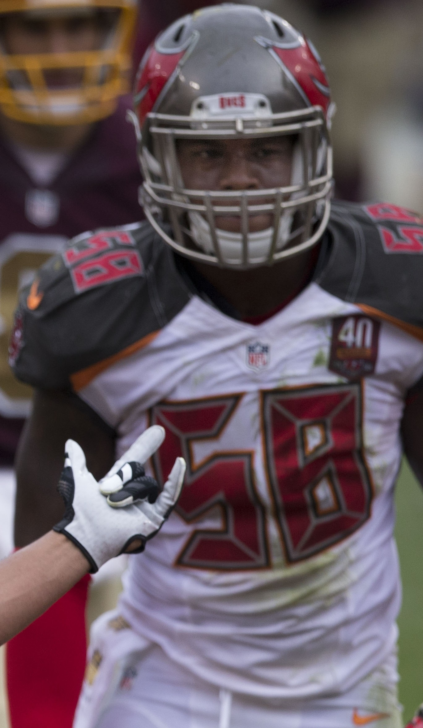 Buccaneers at Redskins 10/25/15